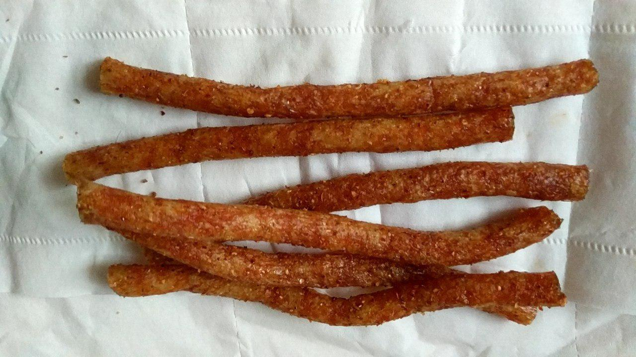 A snack food of China: spicy gluten